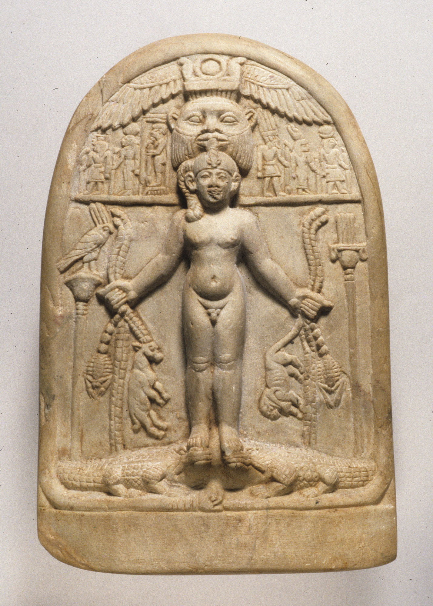 Cippus, Horus